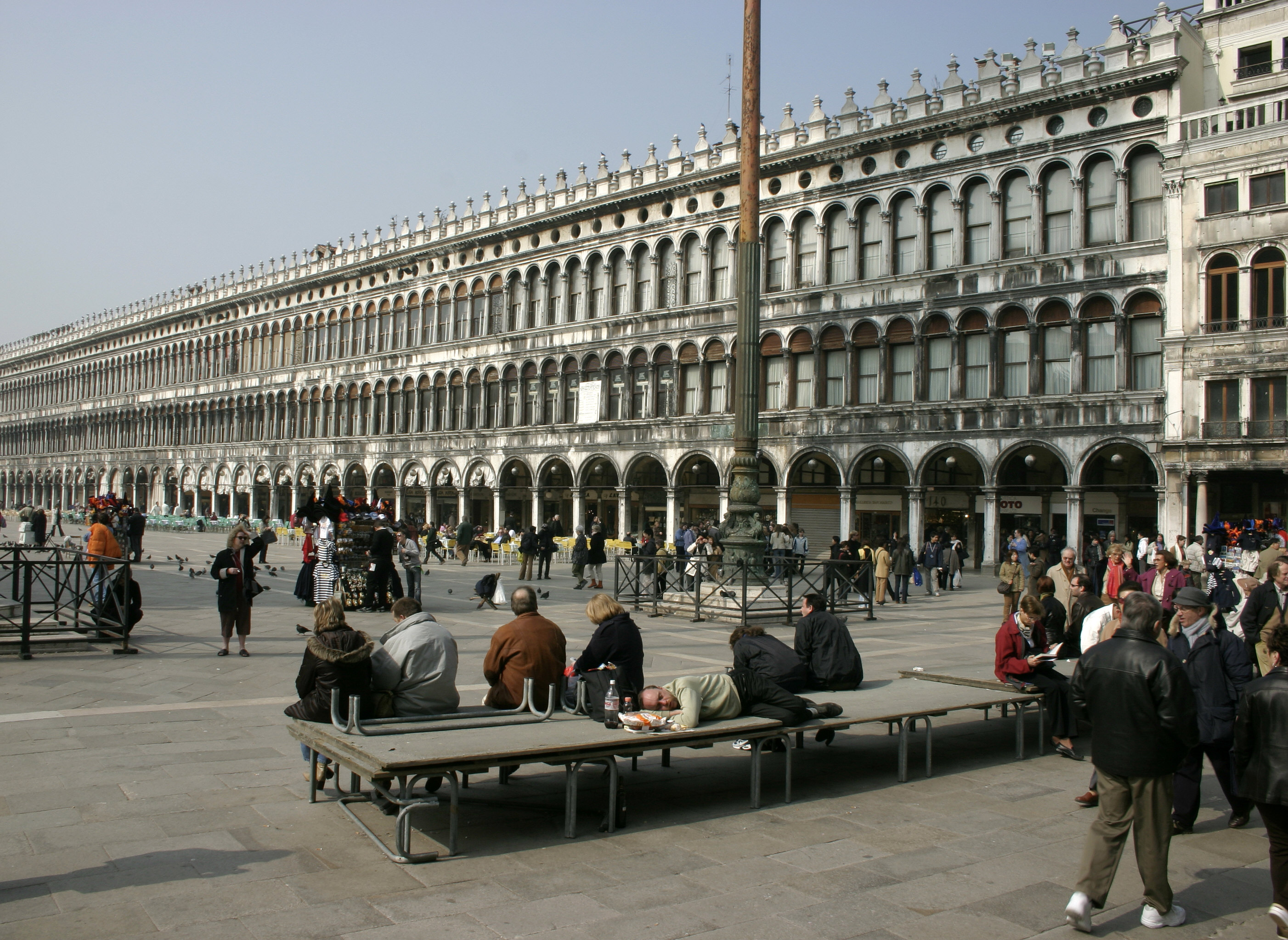 Venice – St. Marcus Square – Procuratie Vecchie